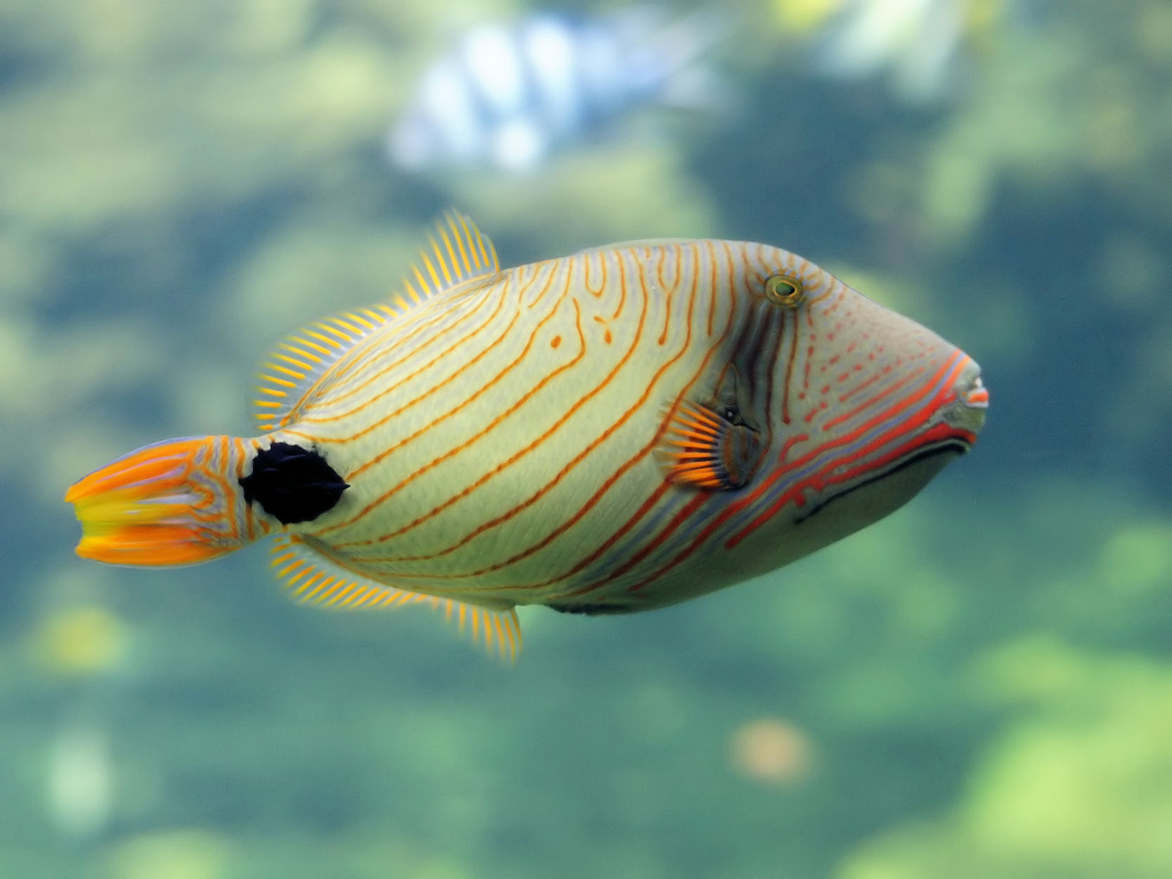 Orange-lined triggerfish at Nausicaä Centre National de la Mer, Boulogne-sur-Mer, France